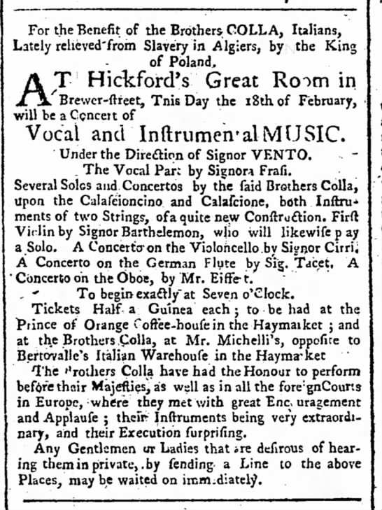 Advertisement from The Public Advertiser London, Greater London, England 18 Feb 1766, Tue • Page 1, taking off Colla brothers (one of whom was Domenico Colla).